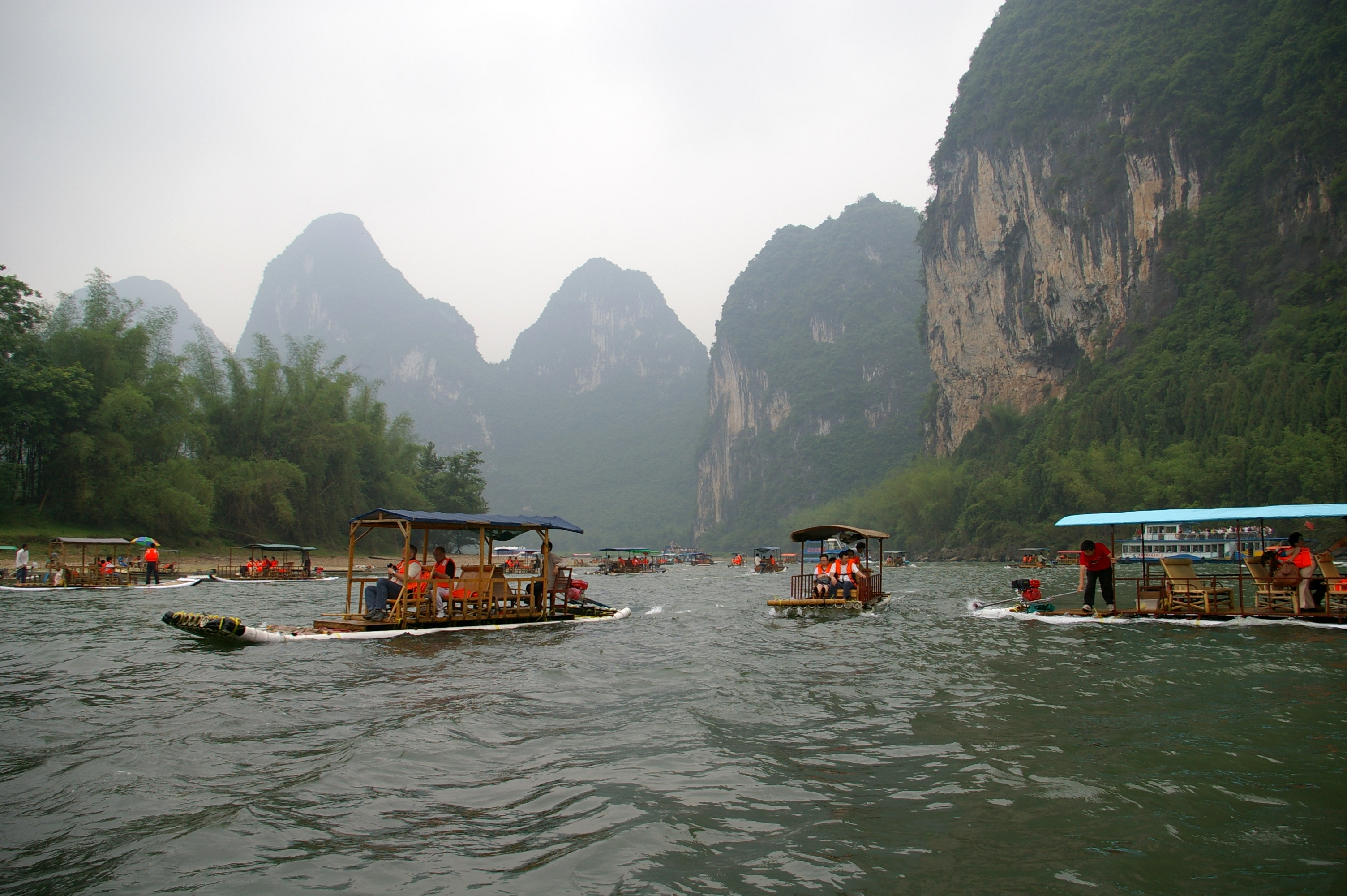 Li River near Yangshuo